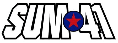 Canadian band Sum 41 official logo